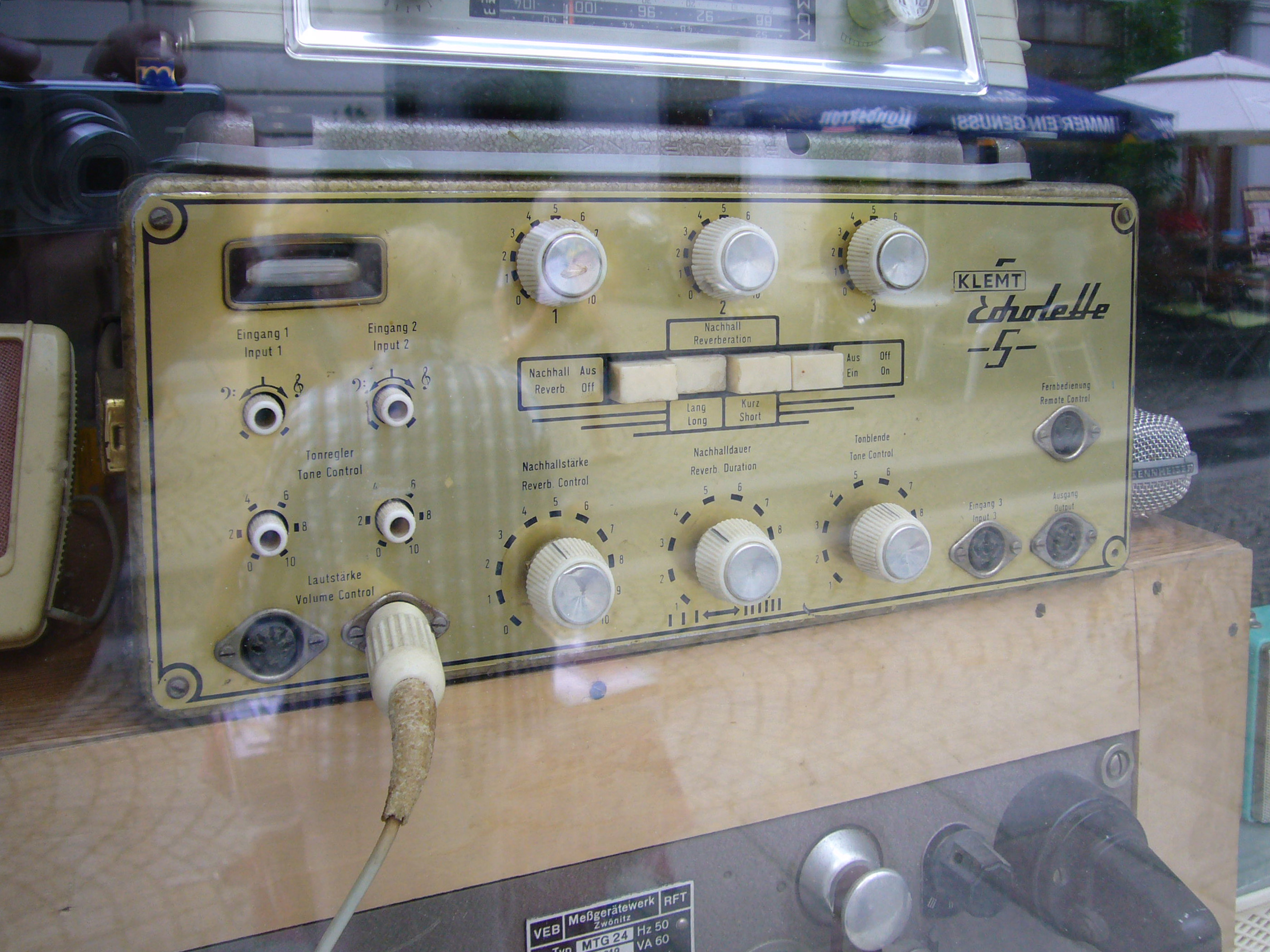 Tape echo effect unit Echolette NG51-S on display in a vintage electronics store